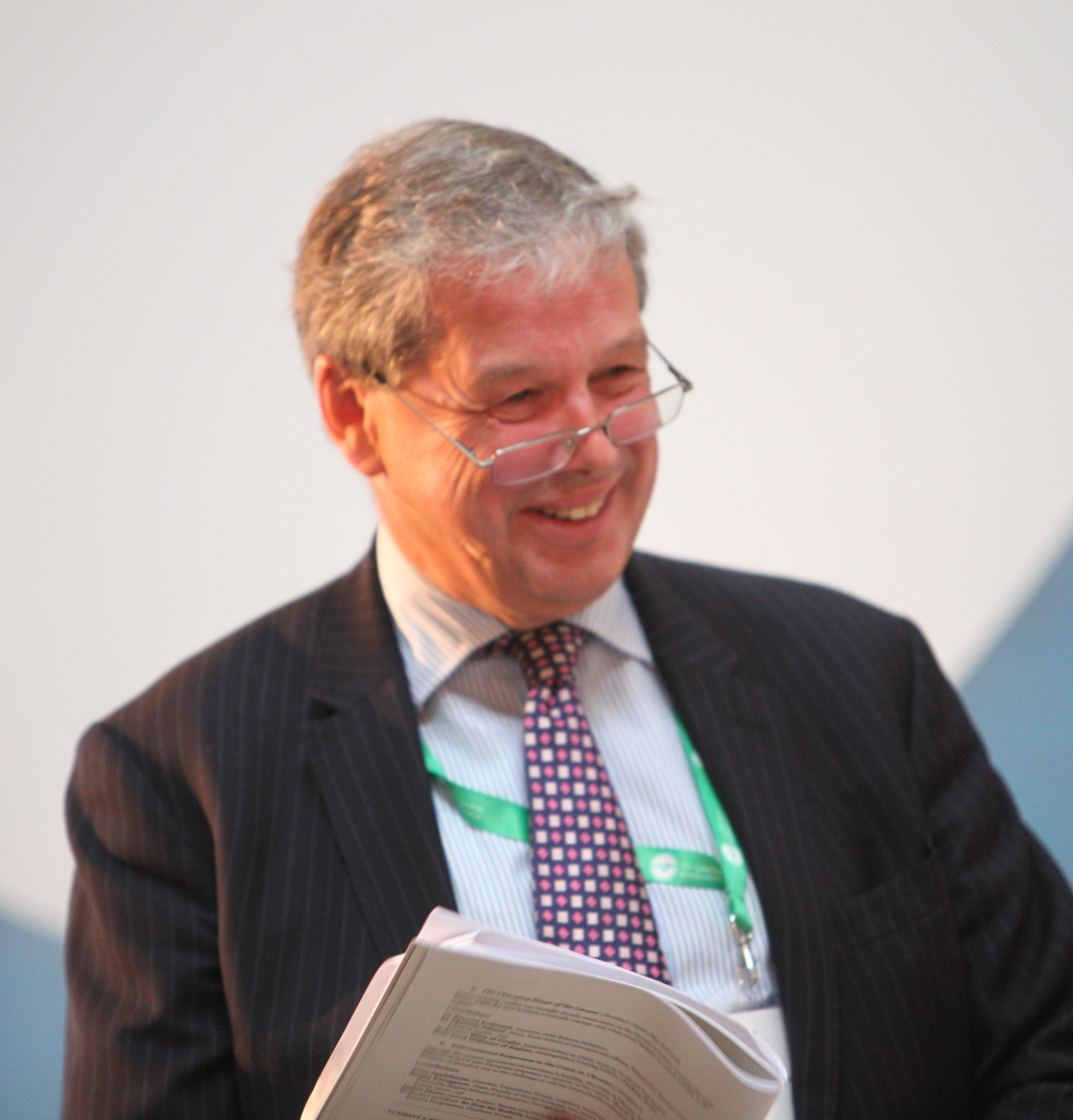 London Conference, 2 June 2015